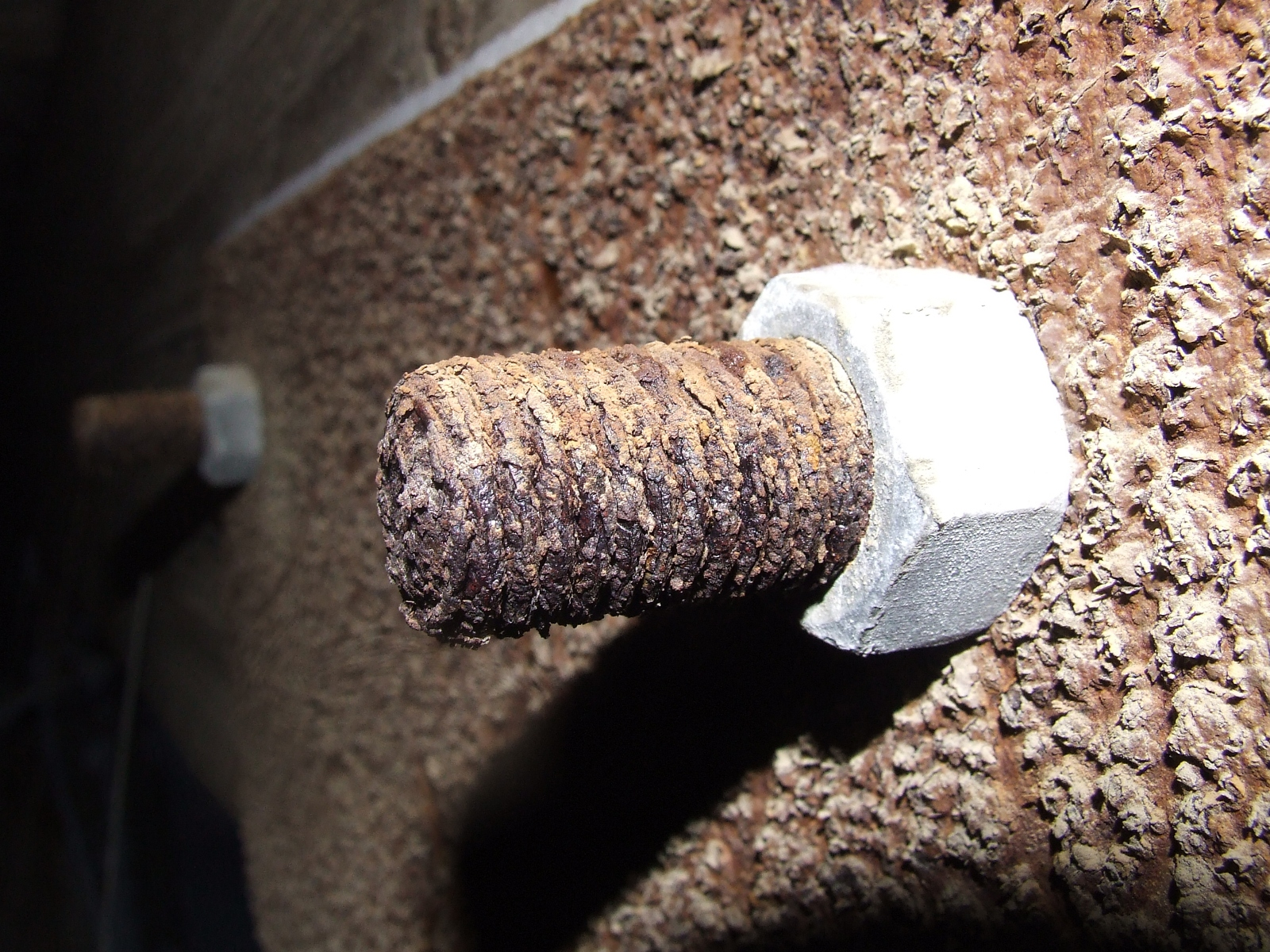 Rusted Bolt, Corrosion, Tetanus